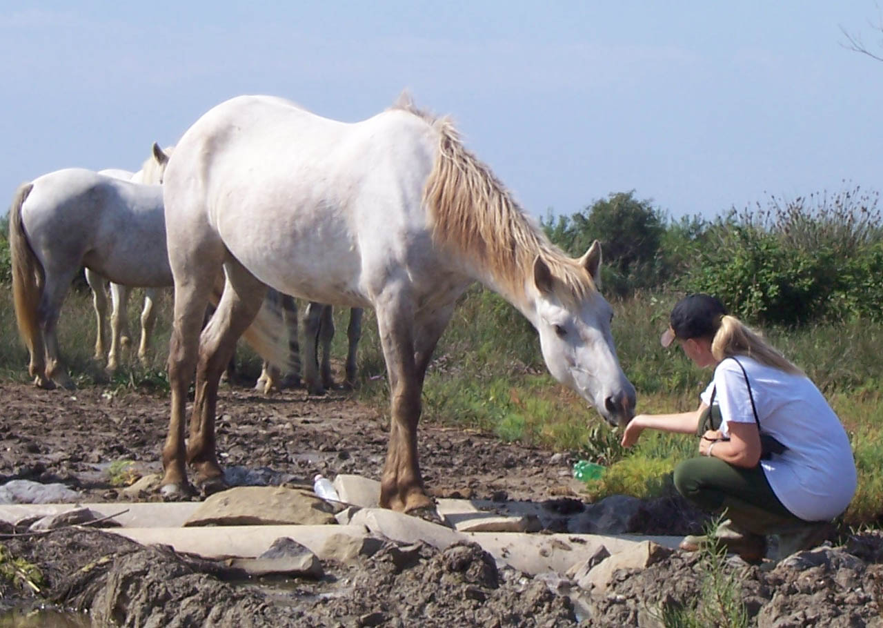 Author: User:Alex_brollo Location: Isola della Cona, Staranzano, Italy Date: sept 2005 Subject: An expert horsewoman approaching a small herd of Camargue horses. Step one: she simulates browsing and she waits.